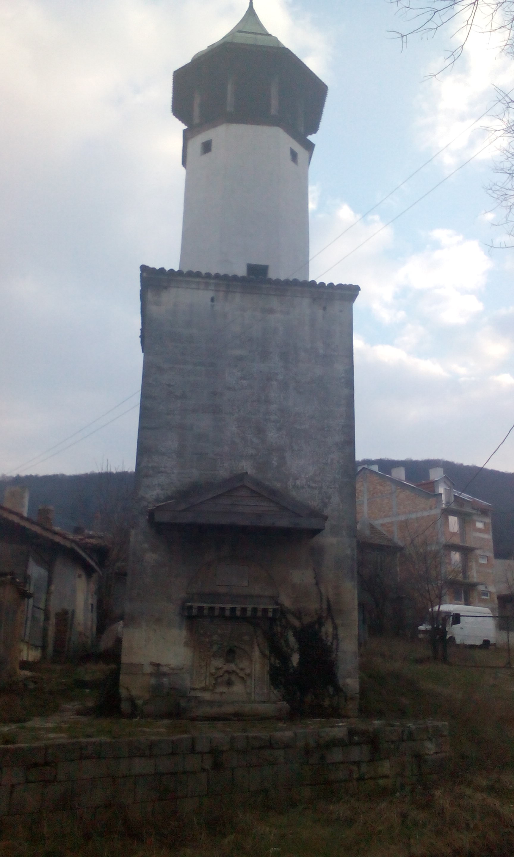 Shumen Clock tower